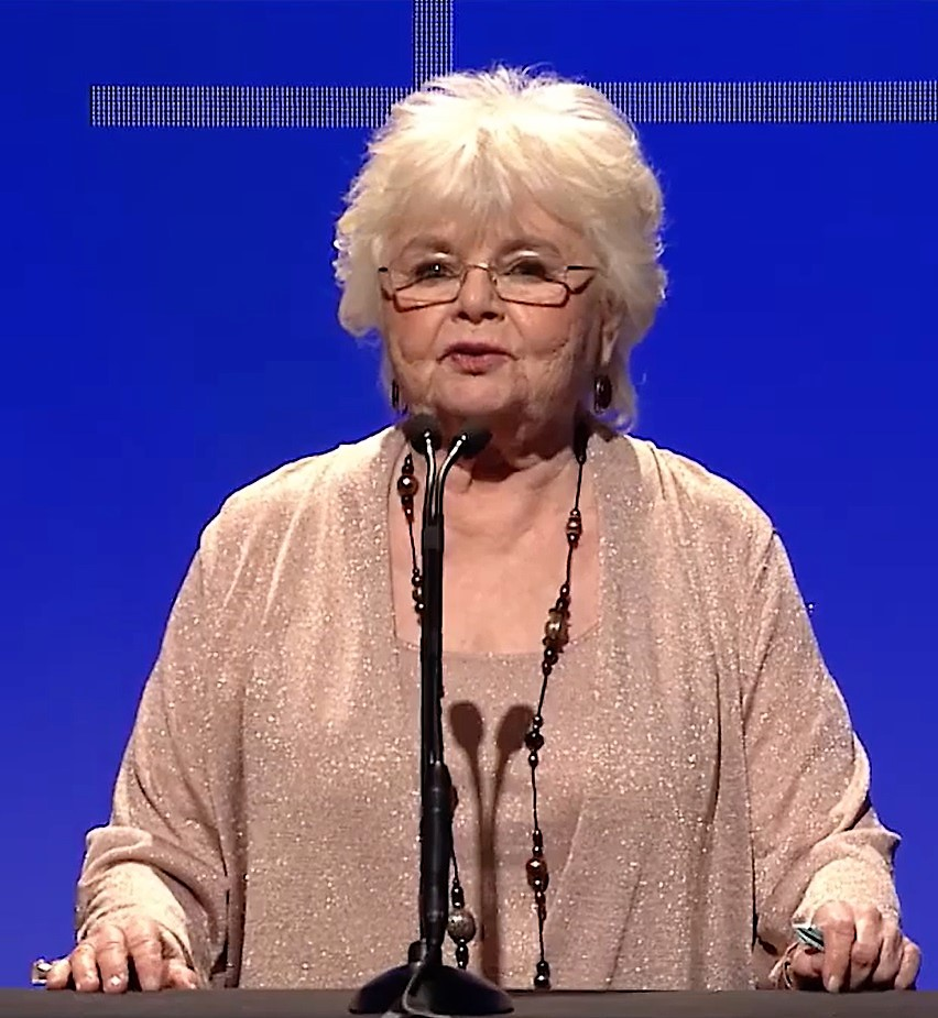 Art Directors Guild 18th Award Show Chapter 24 June Squibb June Squibb presents the award for Contemporary Feature Film to the winner Production Designer K.K. Barrett for HER